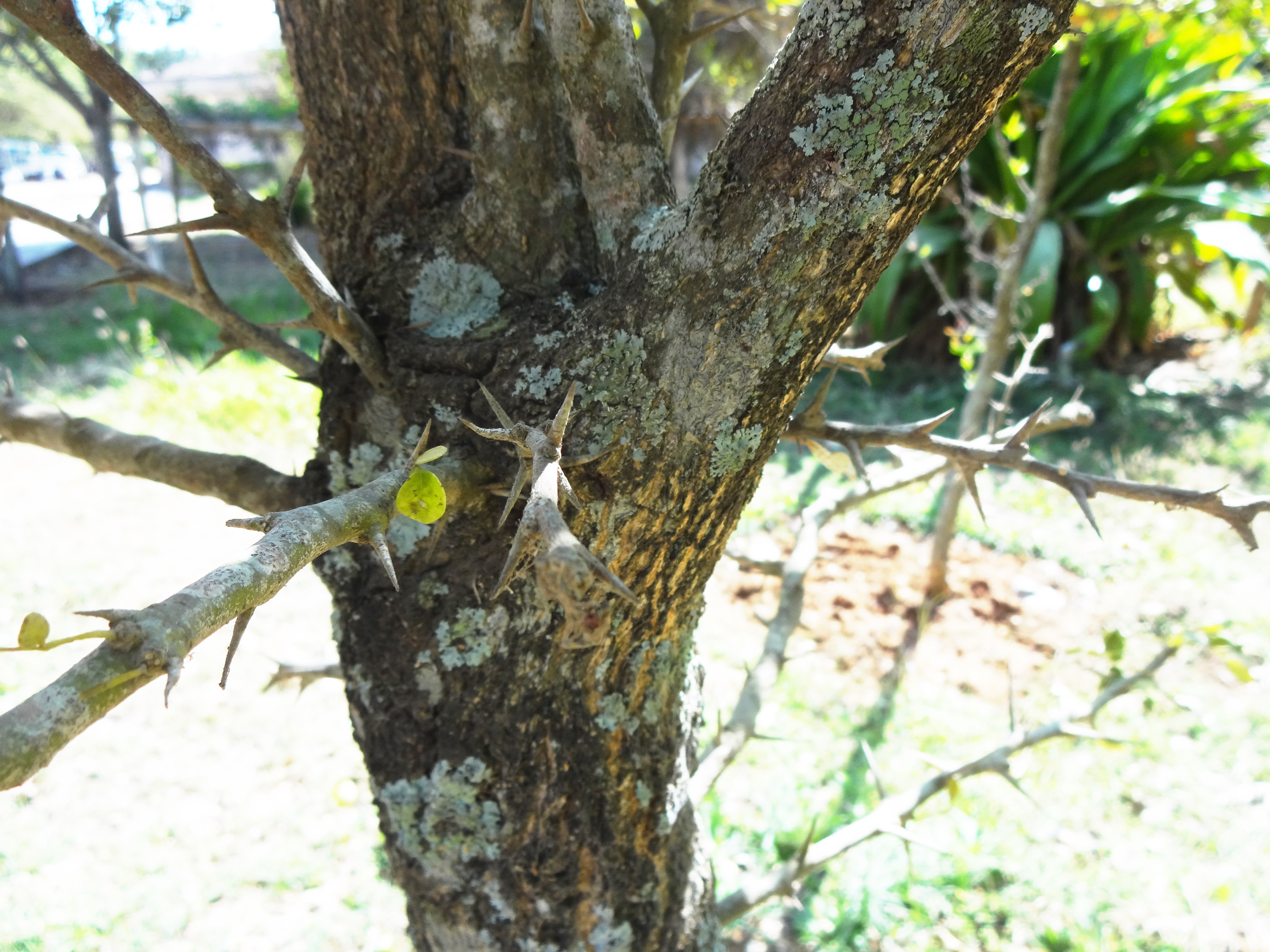 Feronia Elephantum tree. A medicinal plant